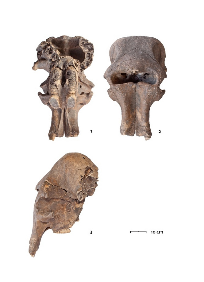 Skull of a young woolly mammoth (Mammuthus primigenius) from Pleistocene, Museum in Smederevo; alluvial plain of the Danube at Ram